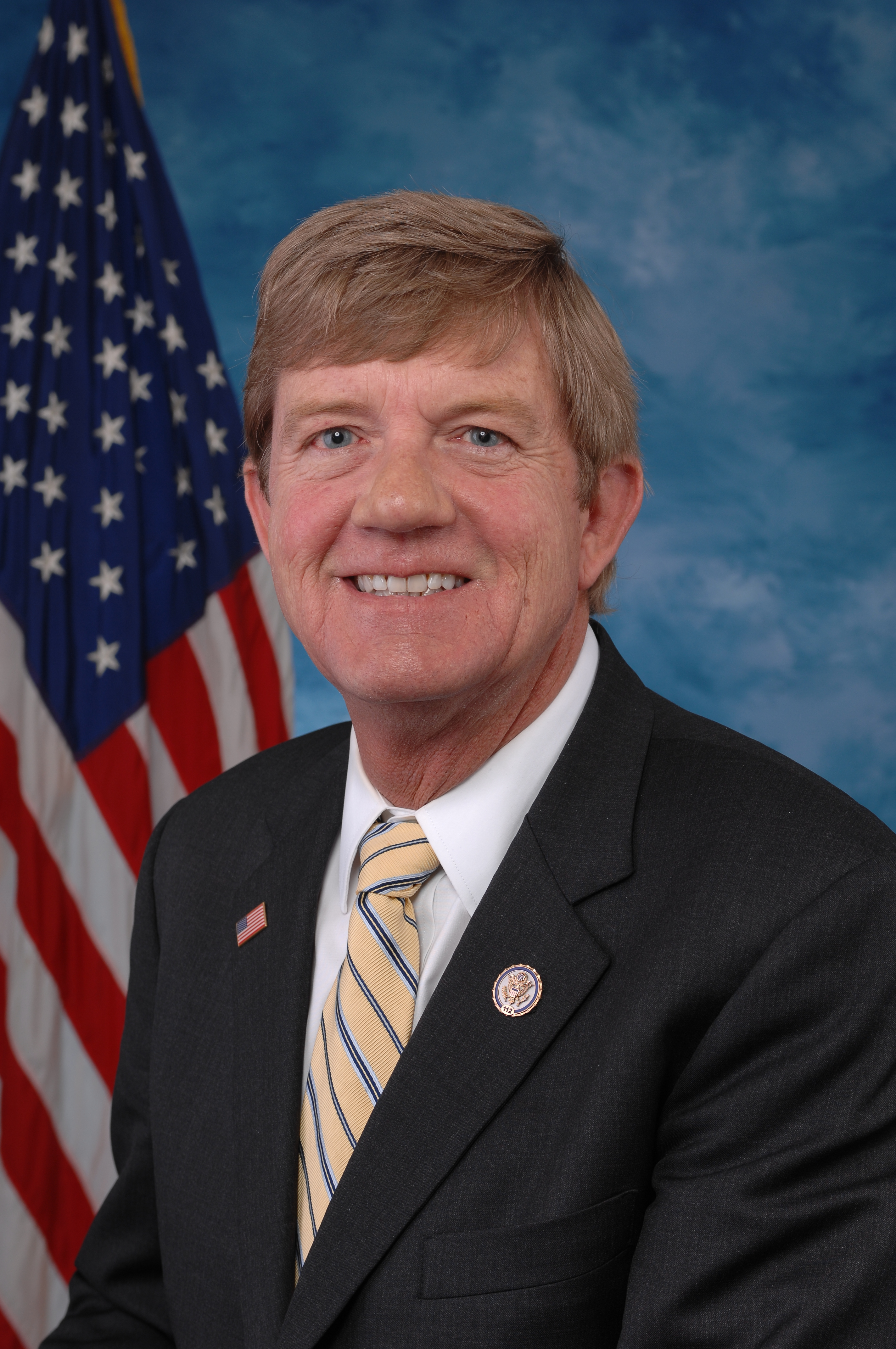 Official portrait of US Rep. Scott Tipton.